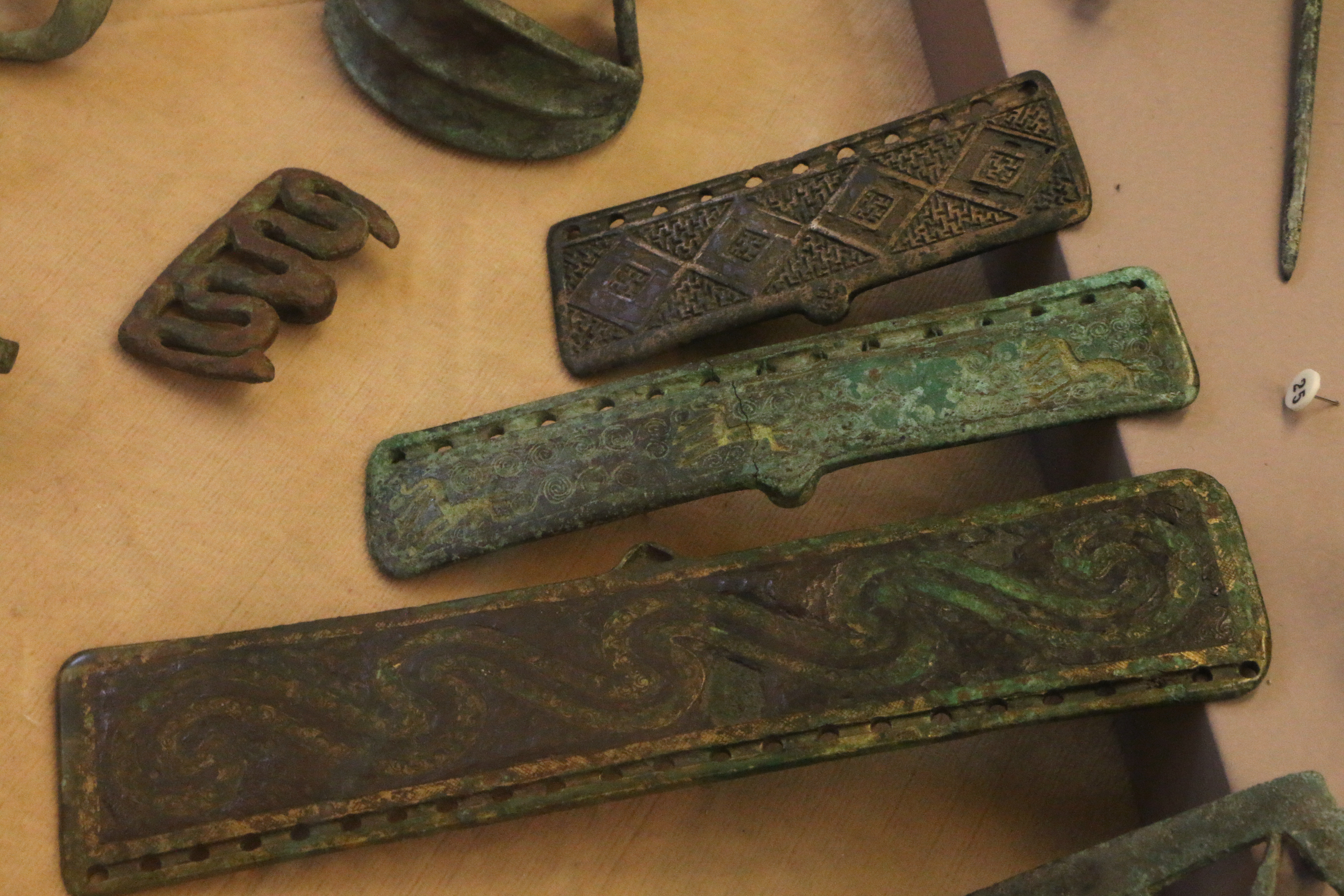 From the National Archaeological Museum of Saint-Germain-en-Laye near Paris France - Beltbuckles - Koban graves - Koban culture